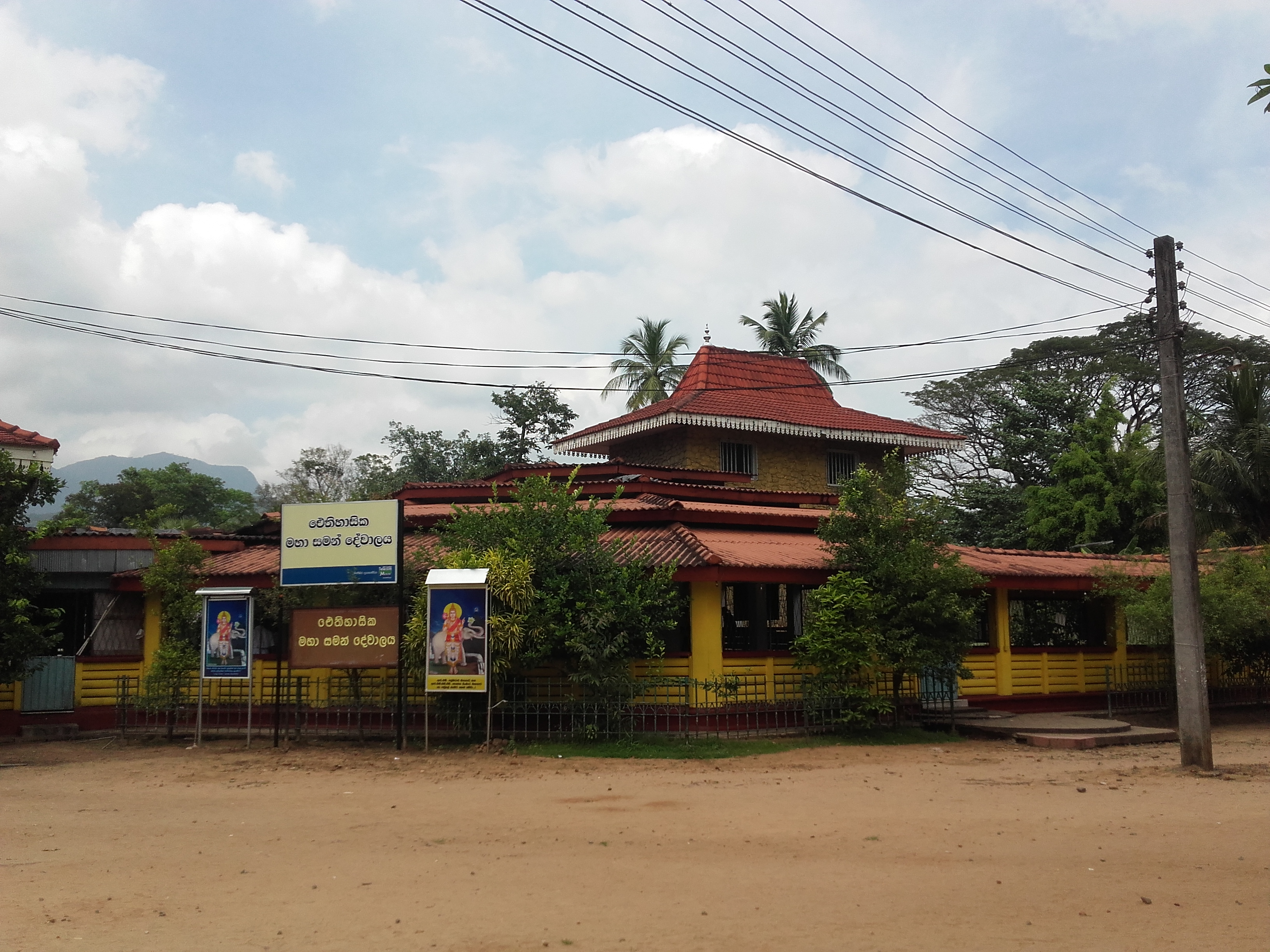 Saman Devalaya at Mahiyangana Vihara, Sri Lanka